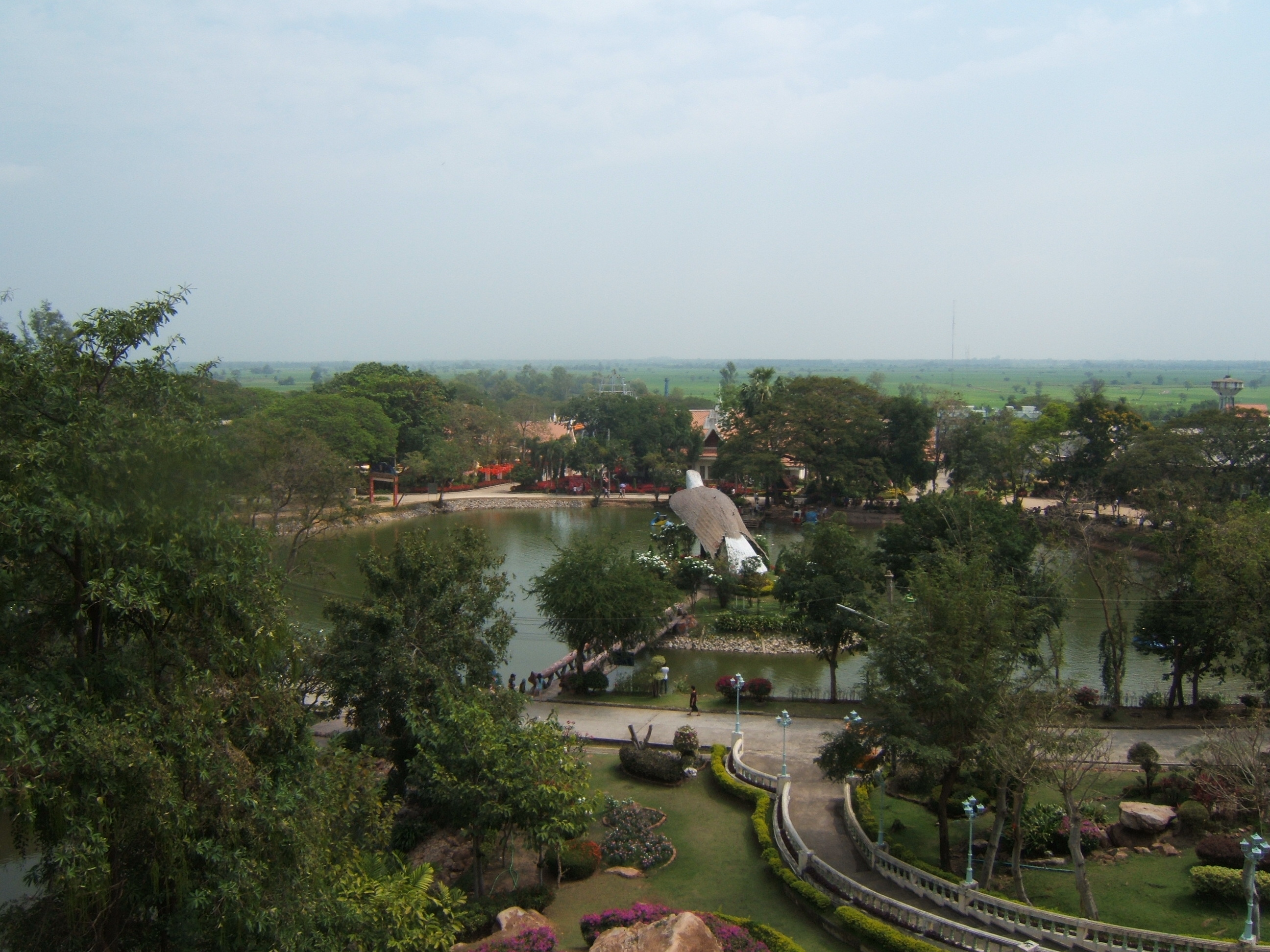 Bird's view on the Bird Park Chainat, Thailand